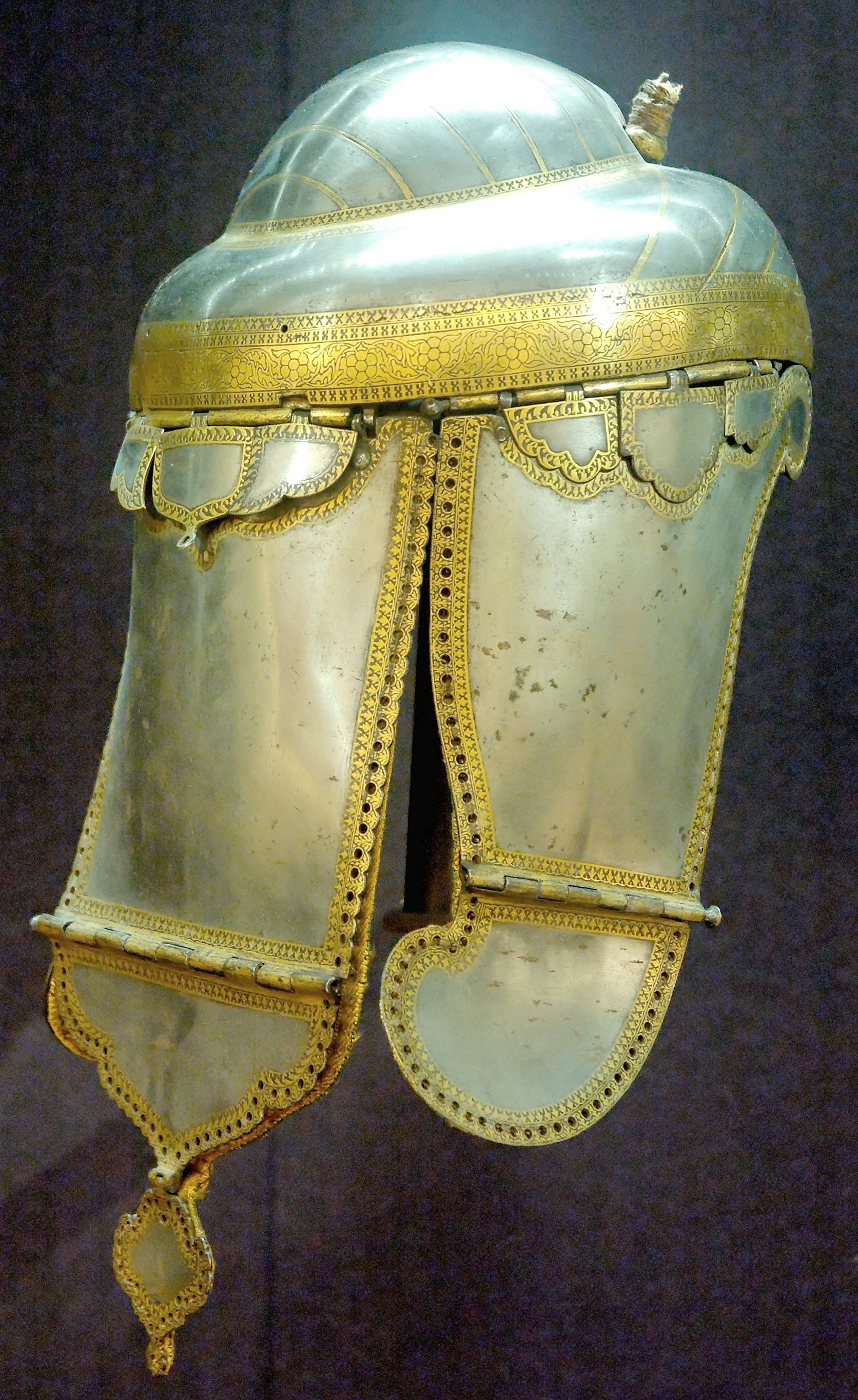 Indian Helmet, 17–18th century. Helmet: steel with engraved, chased and gilded decoration; lining: padded velvet; plume-holder: gilded leather.